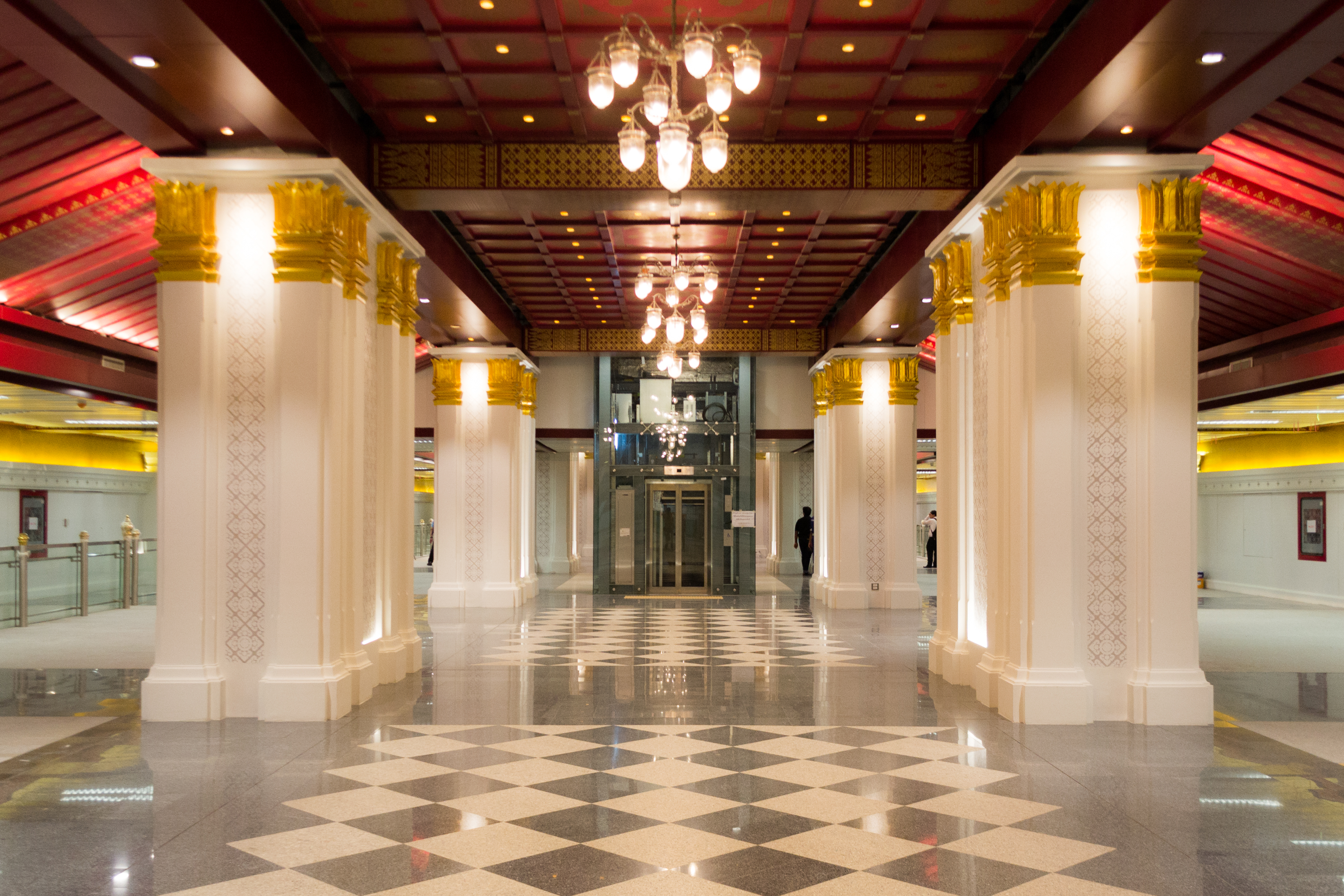 Thailand's MRT Blue Line, Sanam Chai Station. Photographed on 18 Apr 2017, during the construction of the blue line extension project.